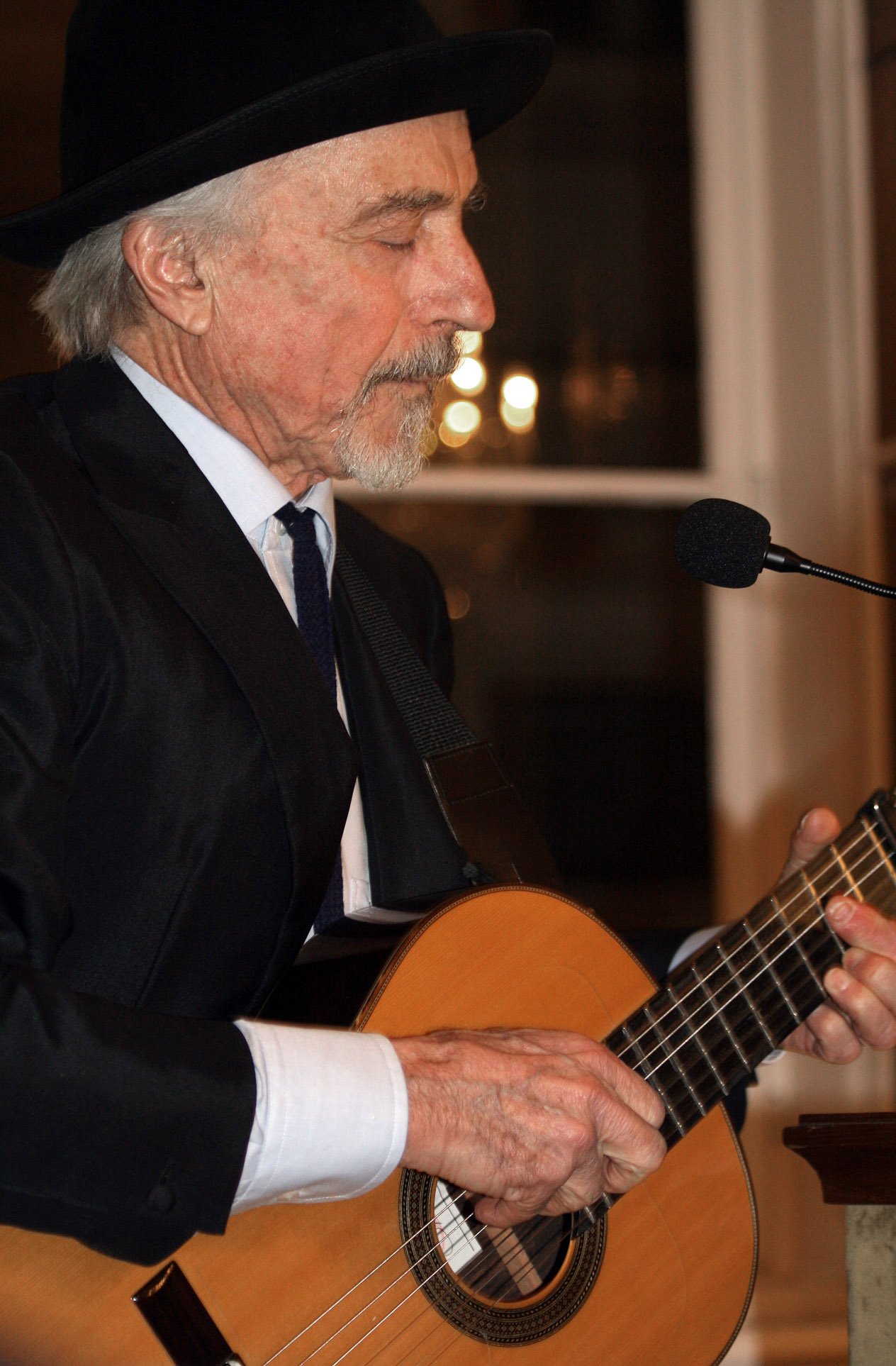 Arik Brauer during the opening of the exhibition Arik Brauer und die Bibel (Arik Brauer and the Bible) on the occasion of his 80th birthday in front of his painting Elginat Egos (Vienna, Austria).